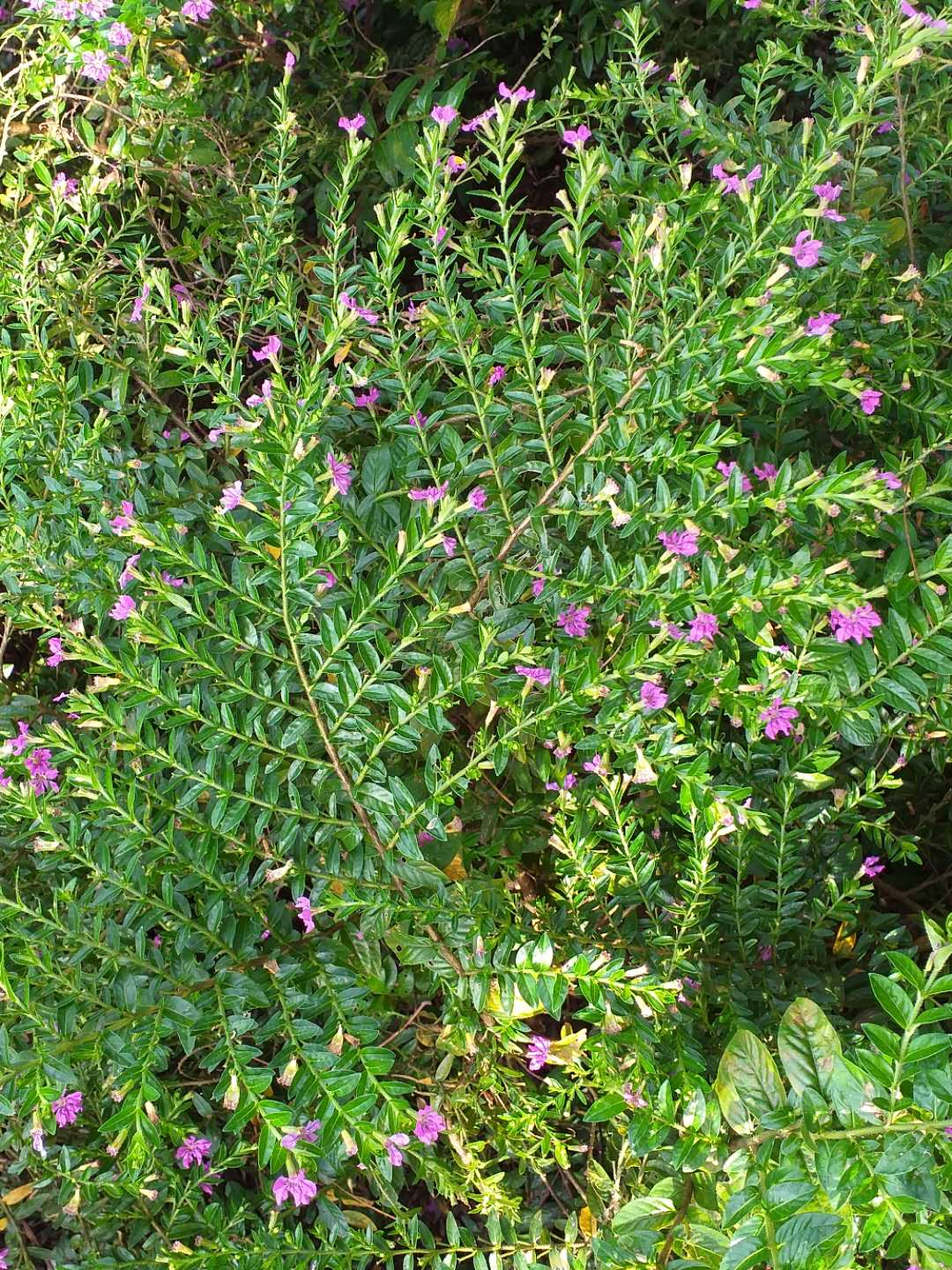 The branch structure of Cuphea hyssopifolia, National Museum of Natural Science, Taichung, Taiwan.